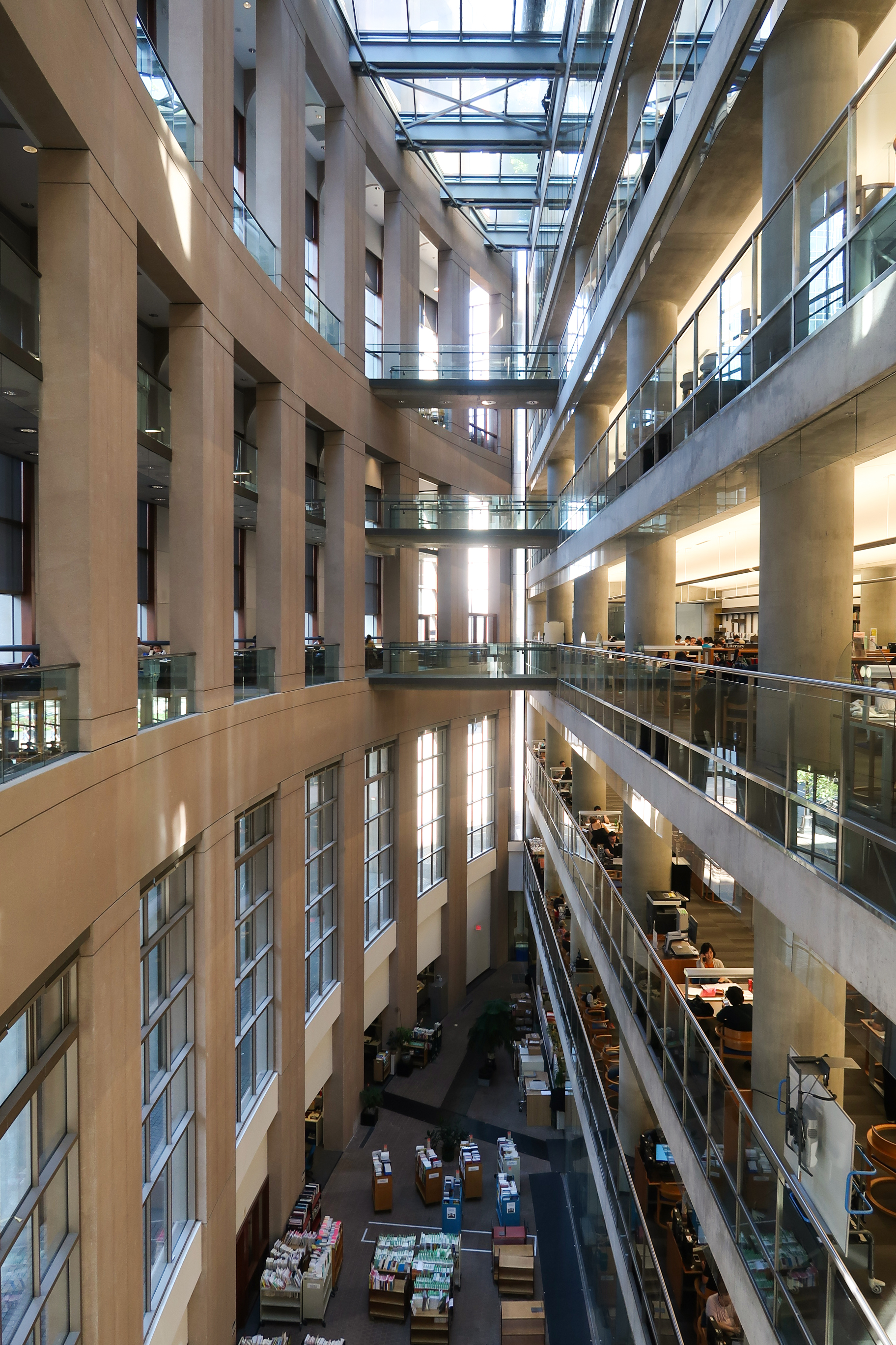 Vancouver Public Library Atrium